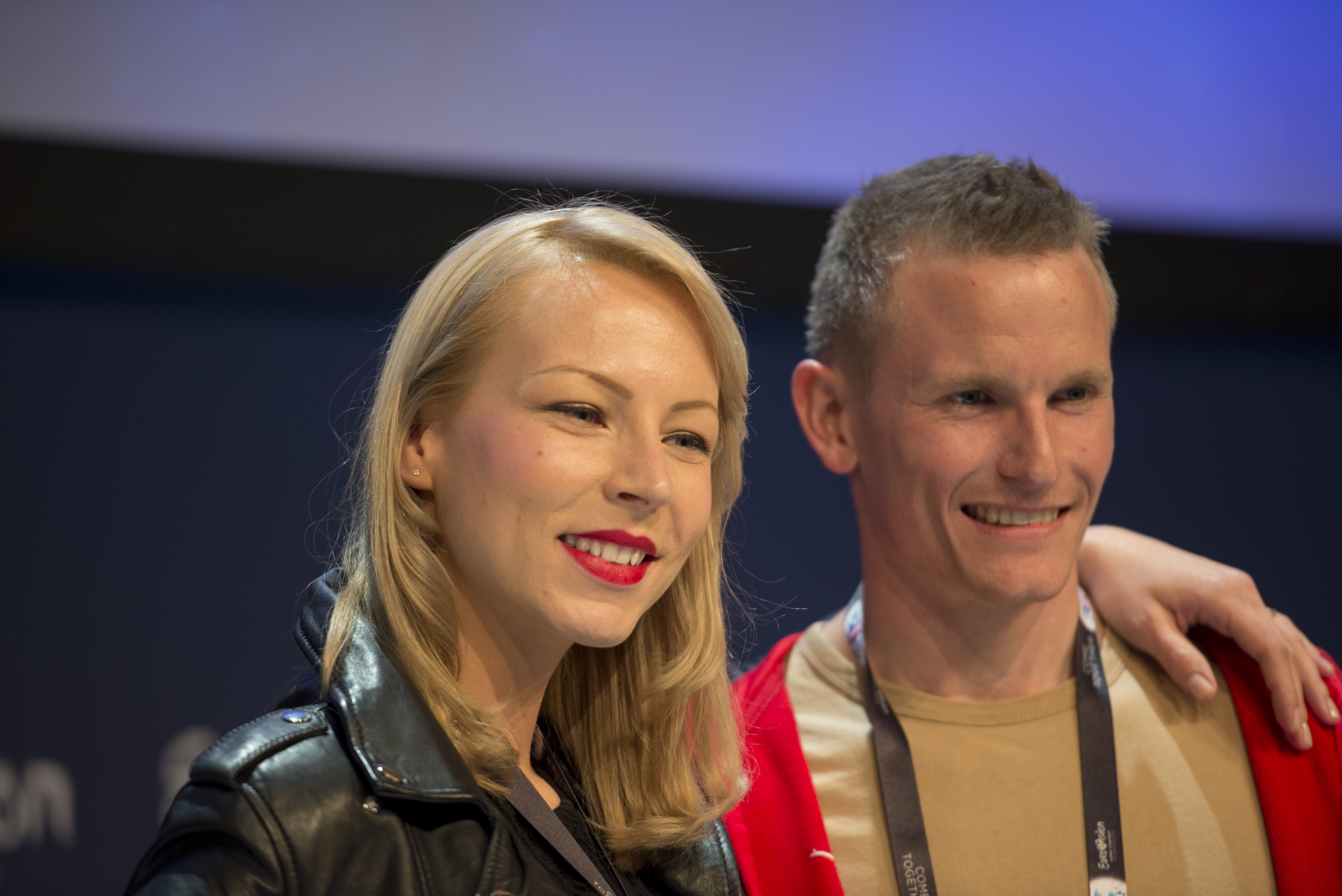 ManuElla at a Meet & Greet during the Eurovision Song Contest 2016 in Stockholm. (Help translate this text)